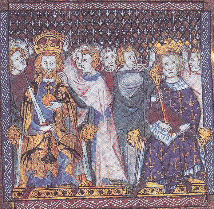 Coronation of Frederick II (1194-1250) and of Louis IX (1214-1270), from a Psalter by Pierre Lombard, early 15th century